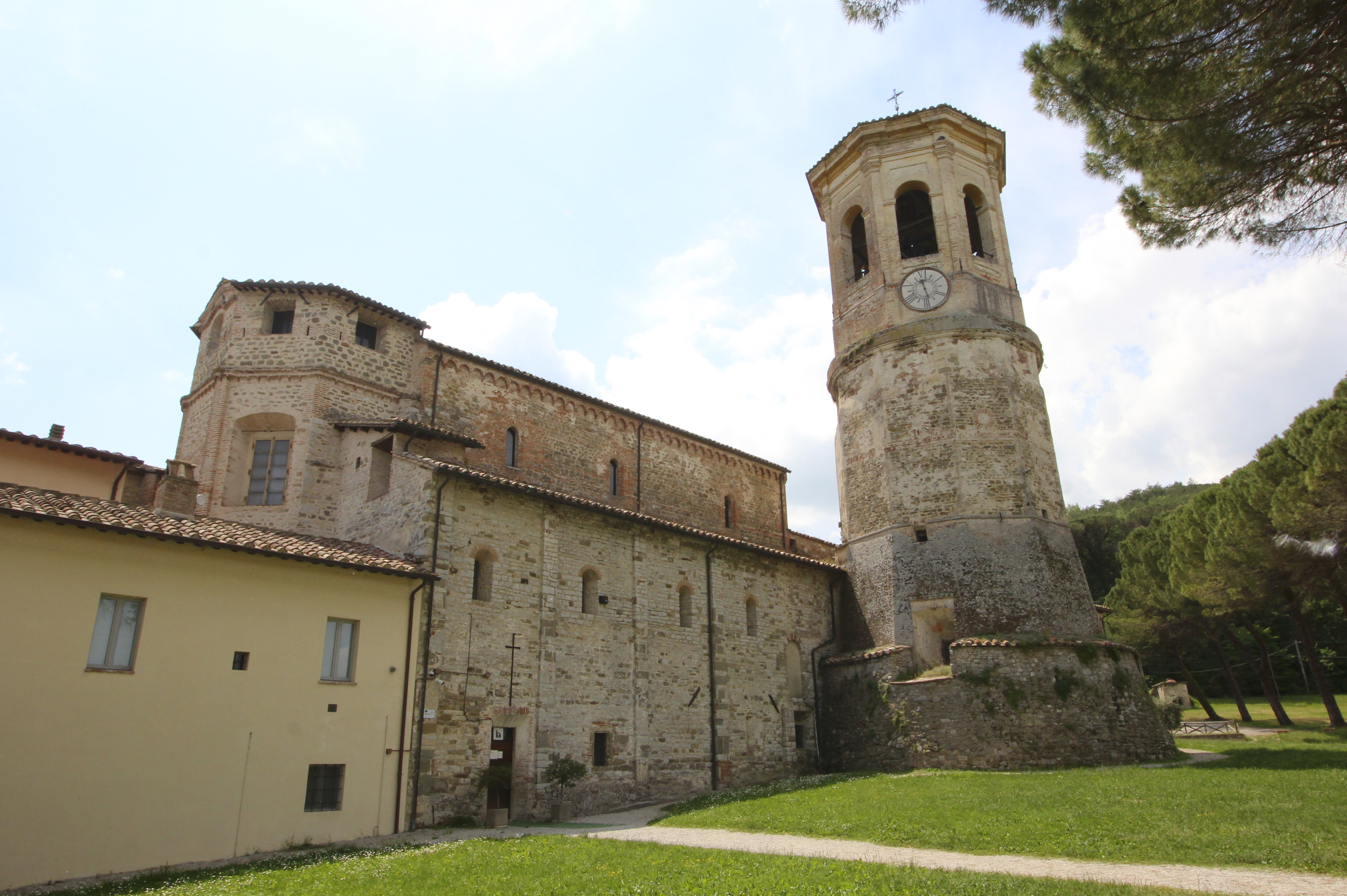 Church and Abbey San Salvatore di Montecorona (also: Abbazia Camaldolese di San Salvatore, Badia di Montecorona, San Salvatore di Monte Acuto), territory of Umbertide, Umbria, Italy